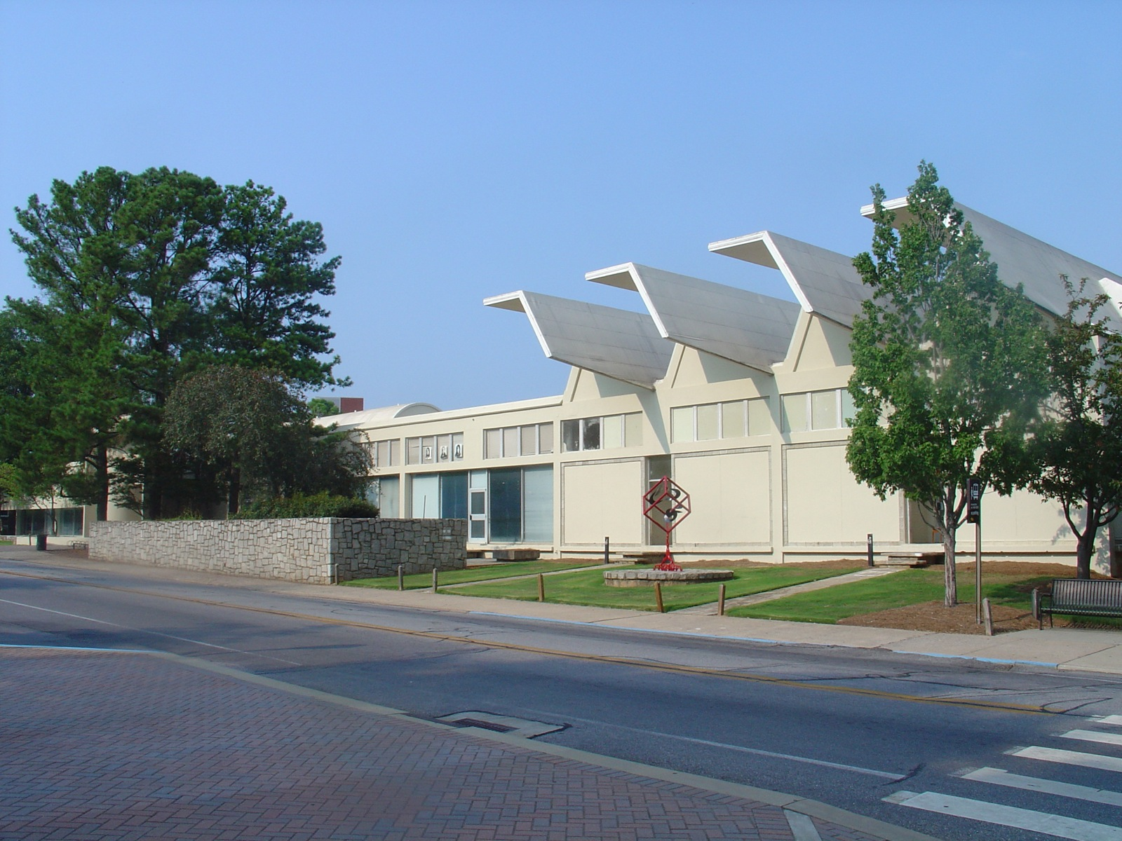 The current home of the UGA School of Art as of 2007.